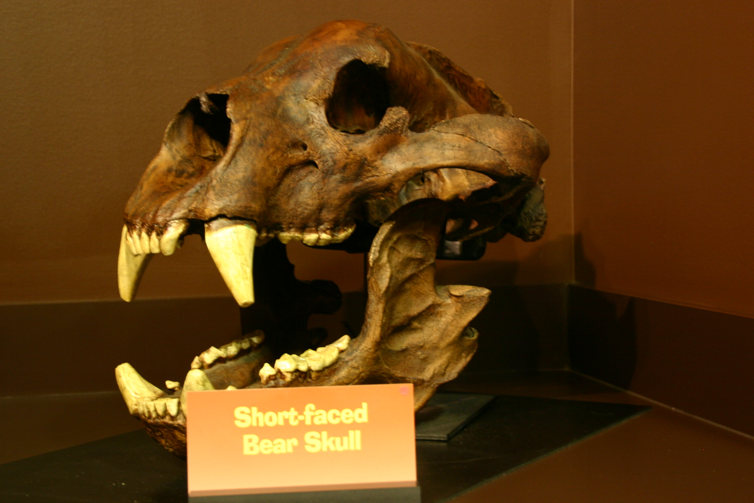 Arctodus skull; Taken at the Virginia Living Museum